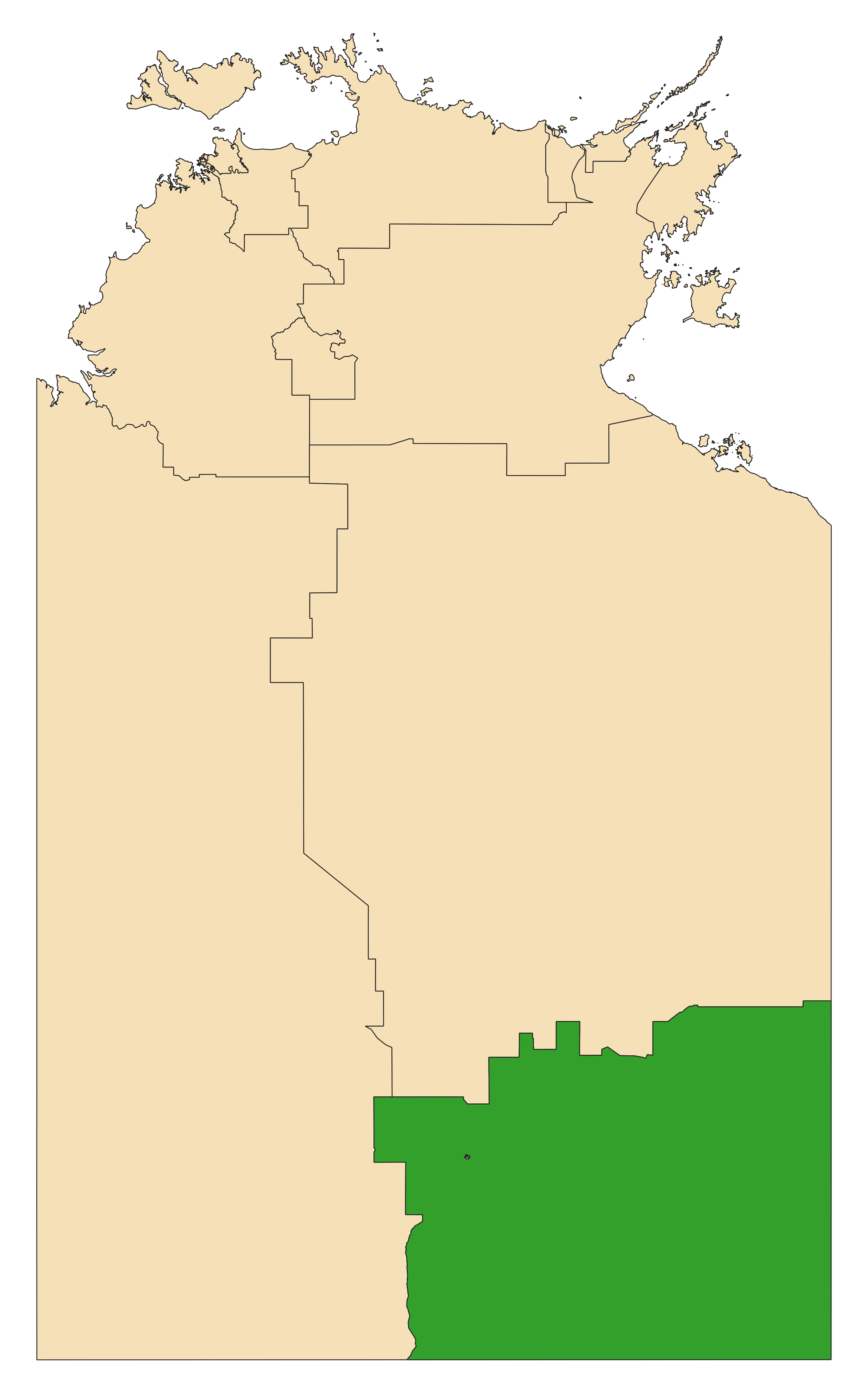 Location of the electoral division of Namatjira (dark green) in the Northern Territory at the 2020 Northern Territory election